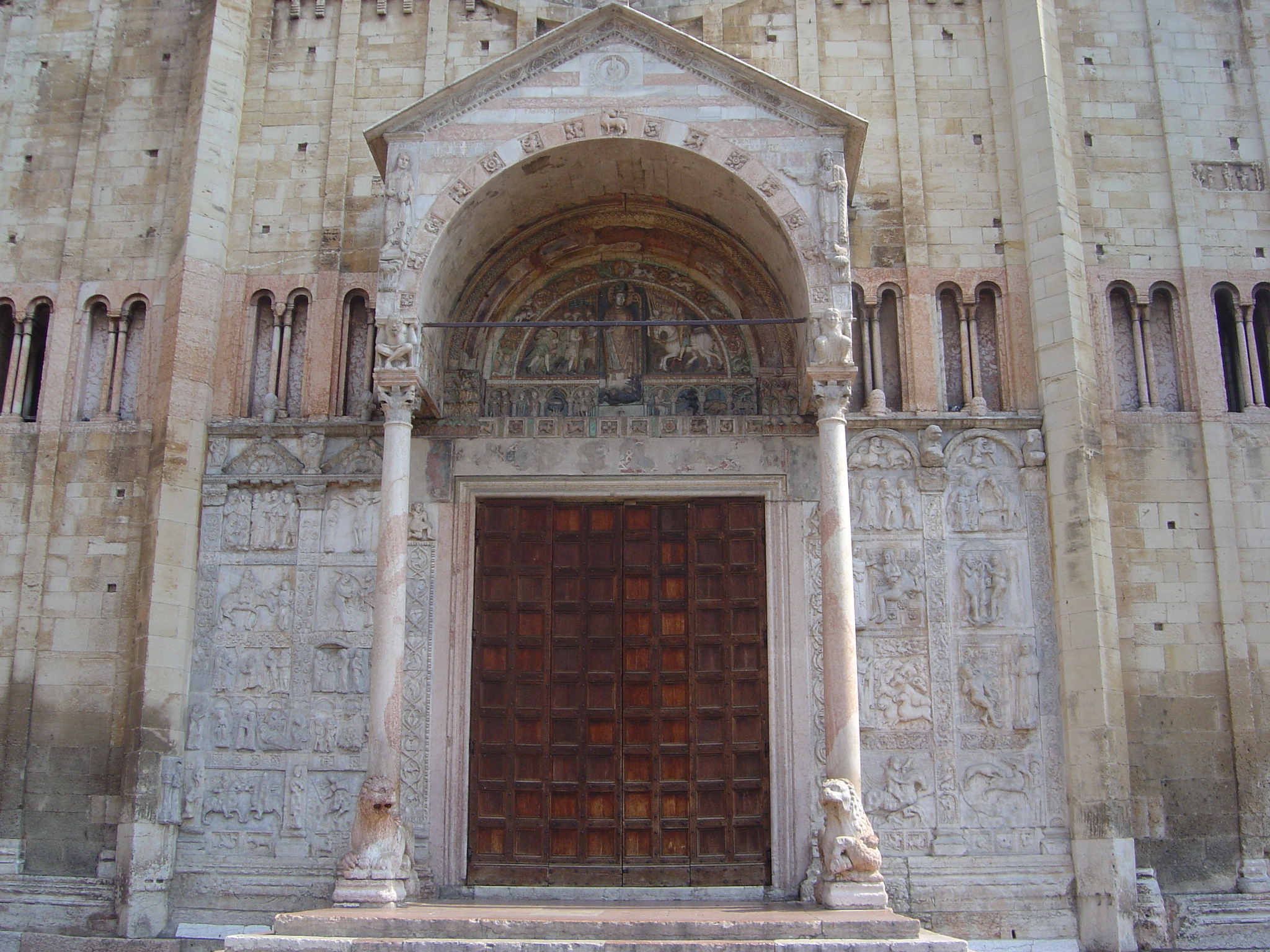 San Zeno basilica, Verona, Italy